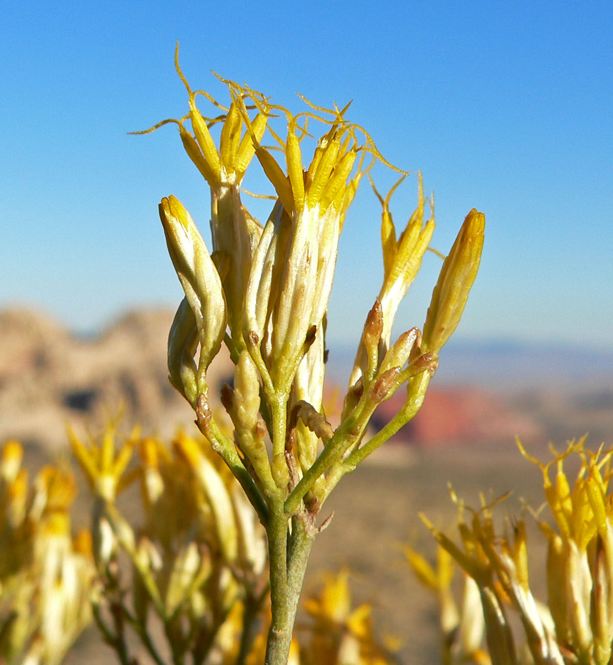 Ericameria nauseosa in Red Rock Canyon, Spring Mountains, southern Nevada